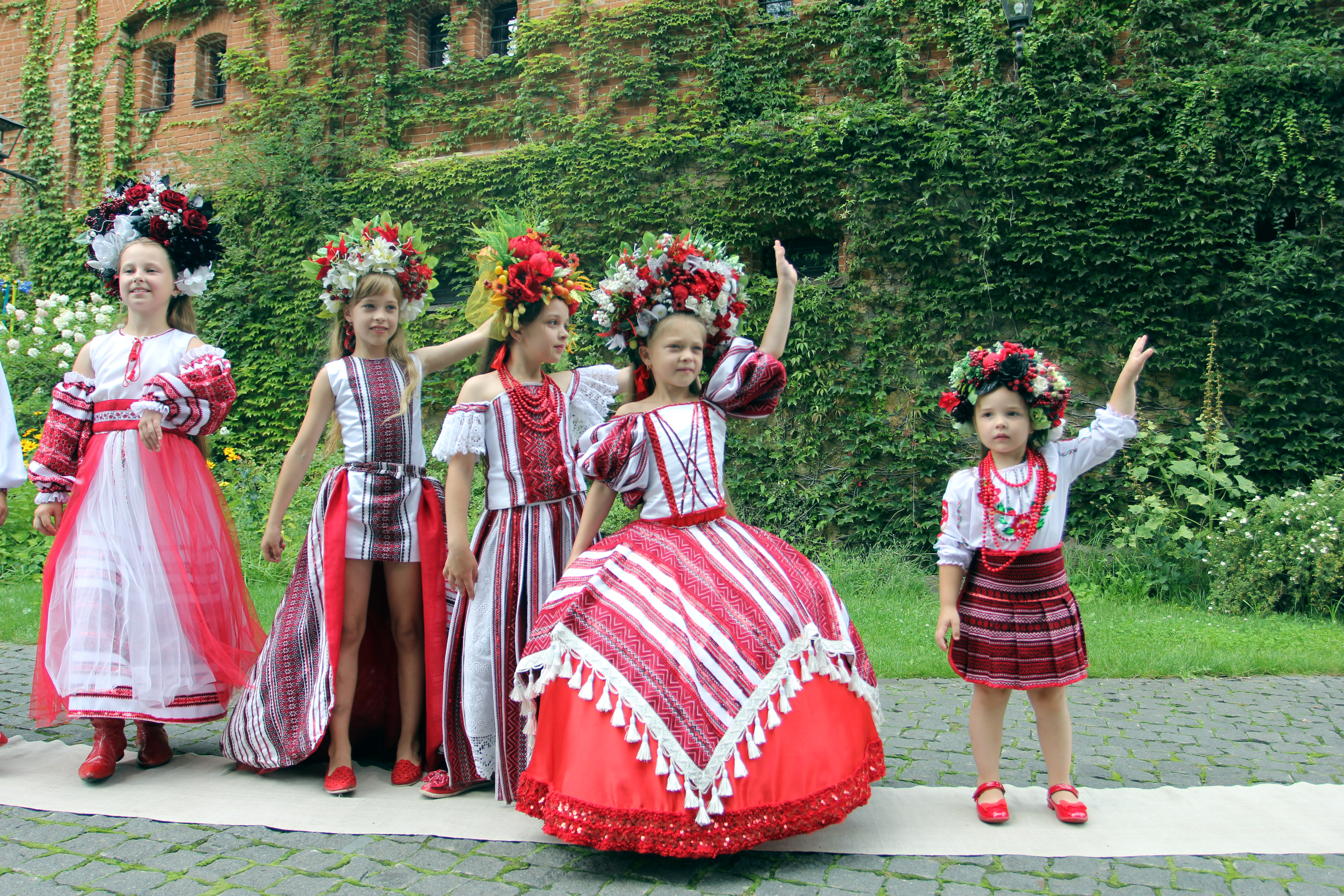 Children participating in the 4th annual ethno-fashion festival in Radomyshl, Ukraine